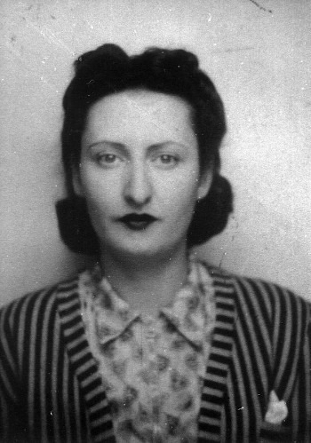 Vittoria Nenni (1915-1943), Italian antifascist activist dead at Auschwitz concentration camp